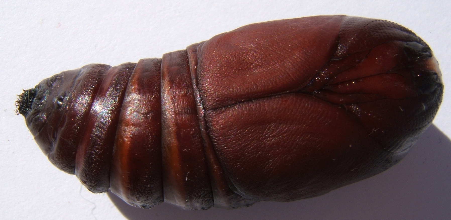 Actias selene male pupa after being reared on American Sweetgum. Raised and picture by Shawn Hanrahan.